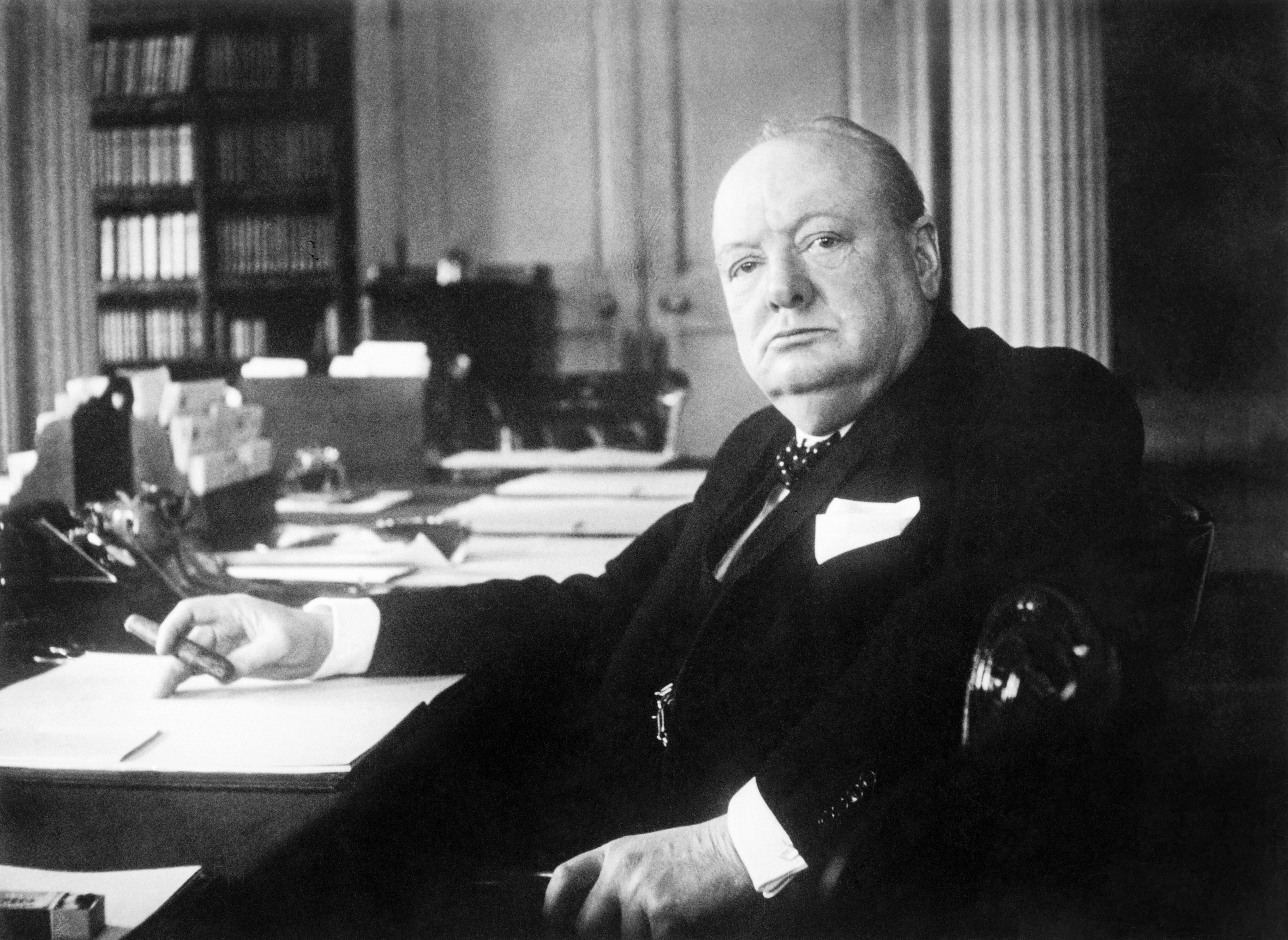 Winston Churchill As Prime Minister 1940-1945 Winston Churchill at his seat in the Cabinet Room at No 10 Downing Street, London.